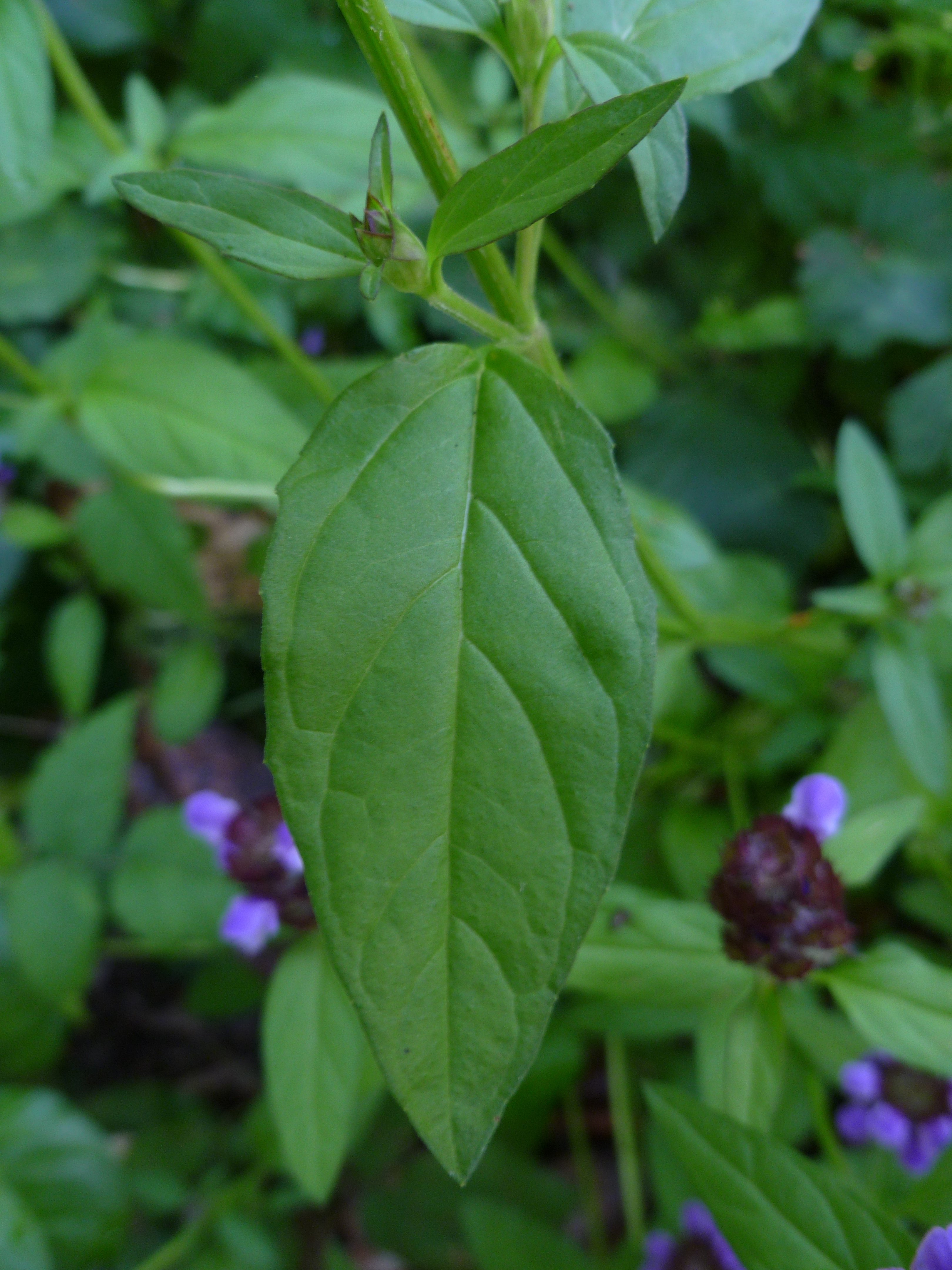 Common self-heal (Prunella vulgaris), on the edge of a coastal forest habitat near Olympia, WA